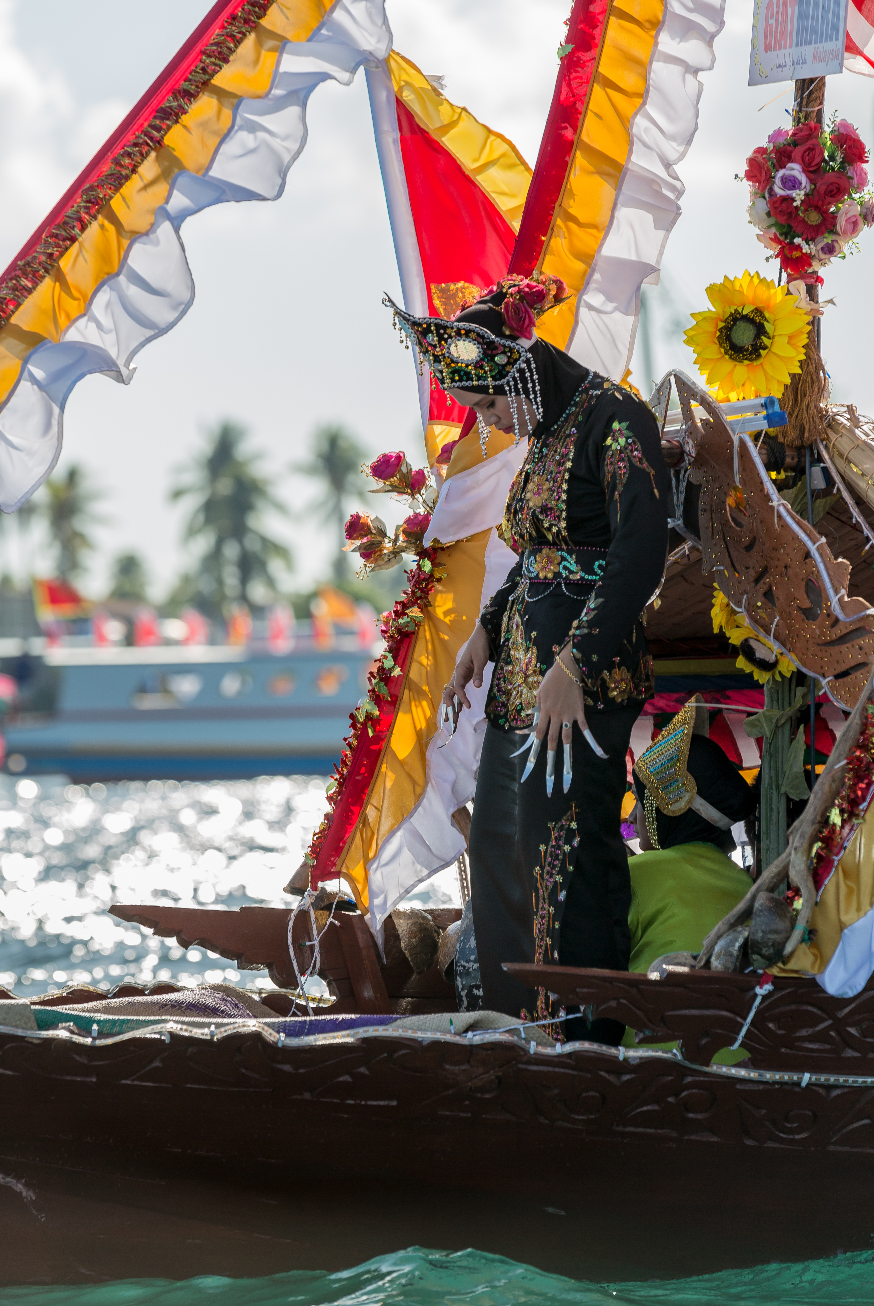 Semporna, Sabah: A Bajau Igal dancer in the bow of a lepa (the traditional Bajau boat) during the Regatta Lepa event 2015. The janggay (metal "fingernails") are used to emphasize the dancer’s hand movements.